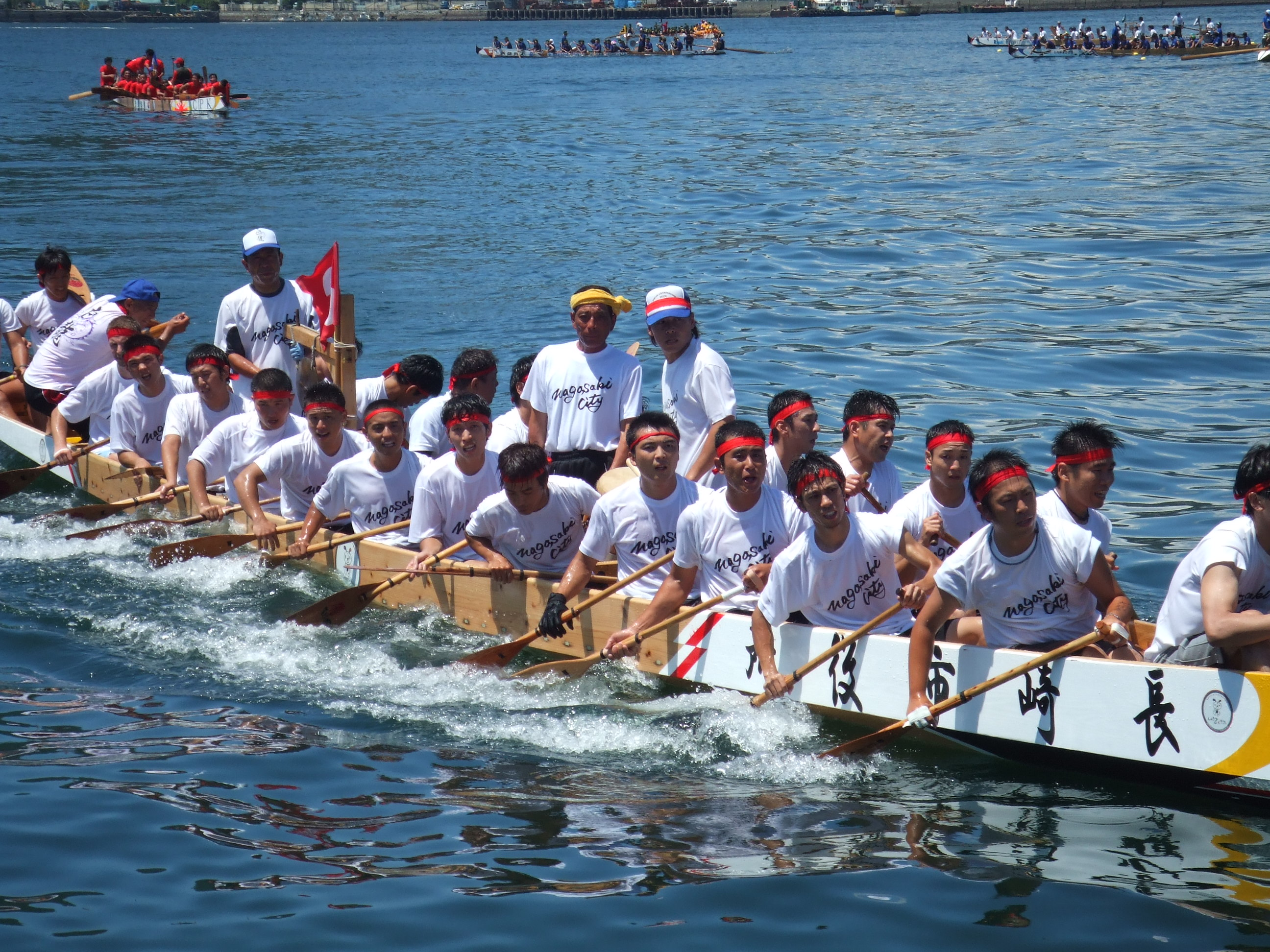 Nagasaki City Hall Peiron Team at the 2005 Nagasaki Peiron Competition